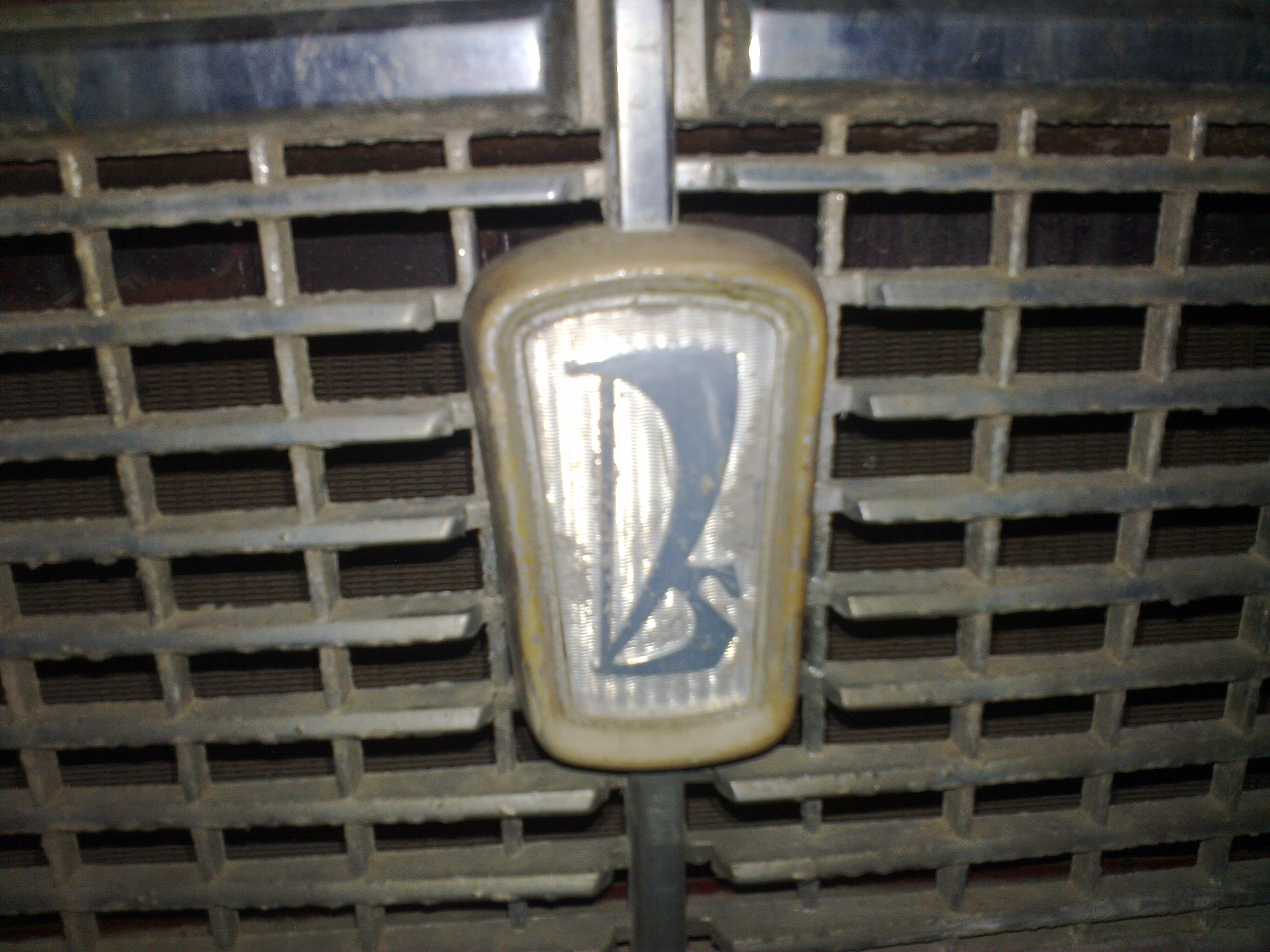 Lada Emblem in Nicosia